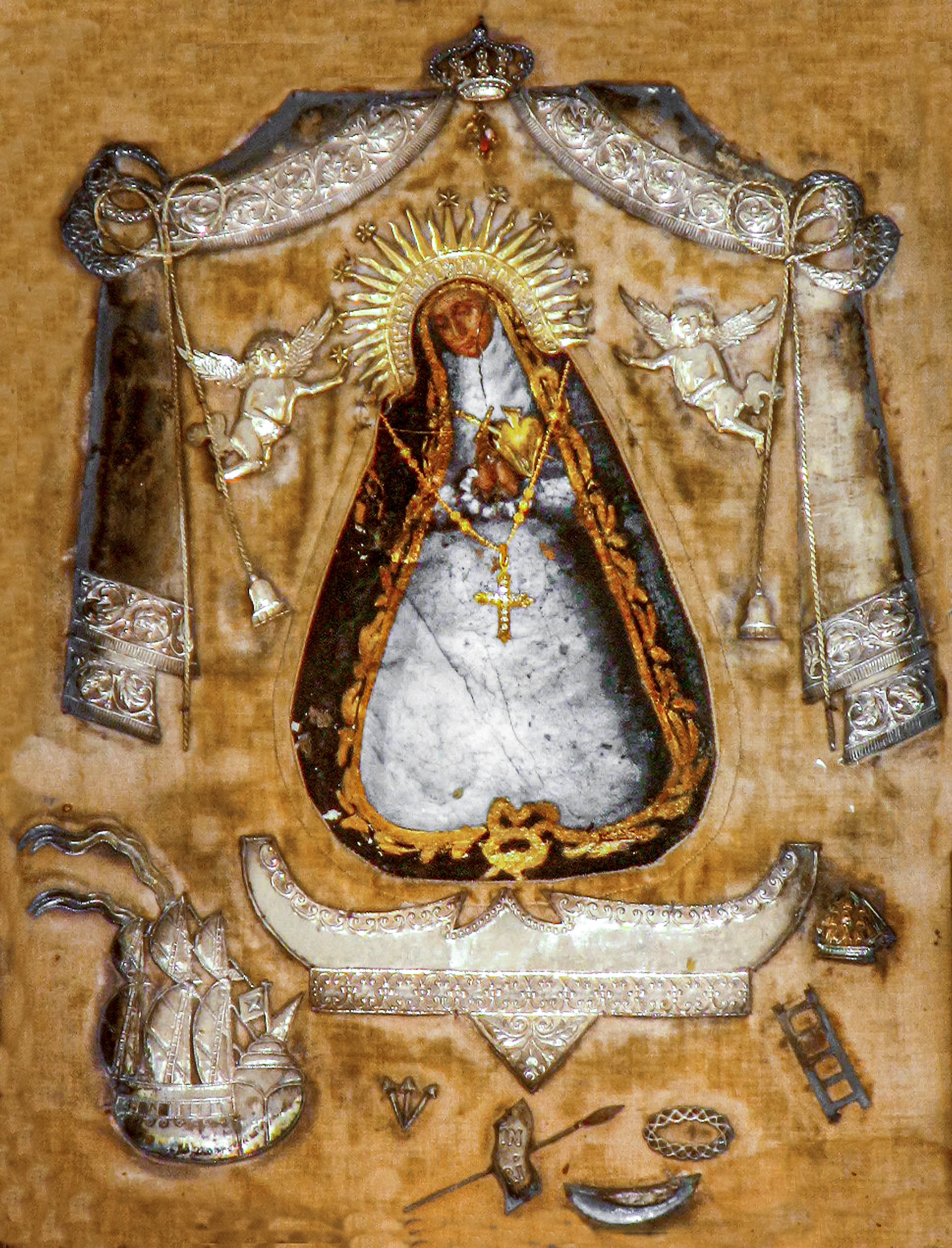 Soledad de Manila in Camba Tondo